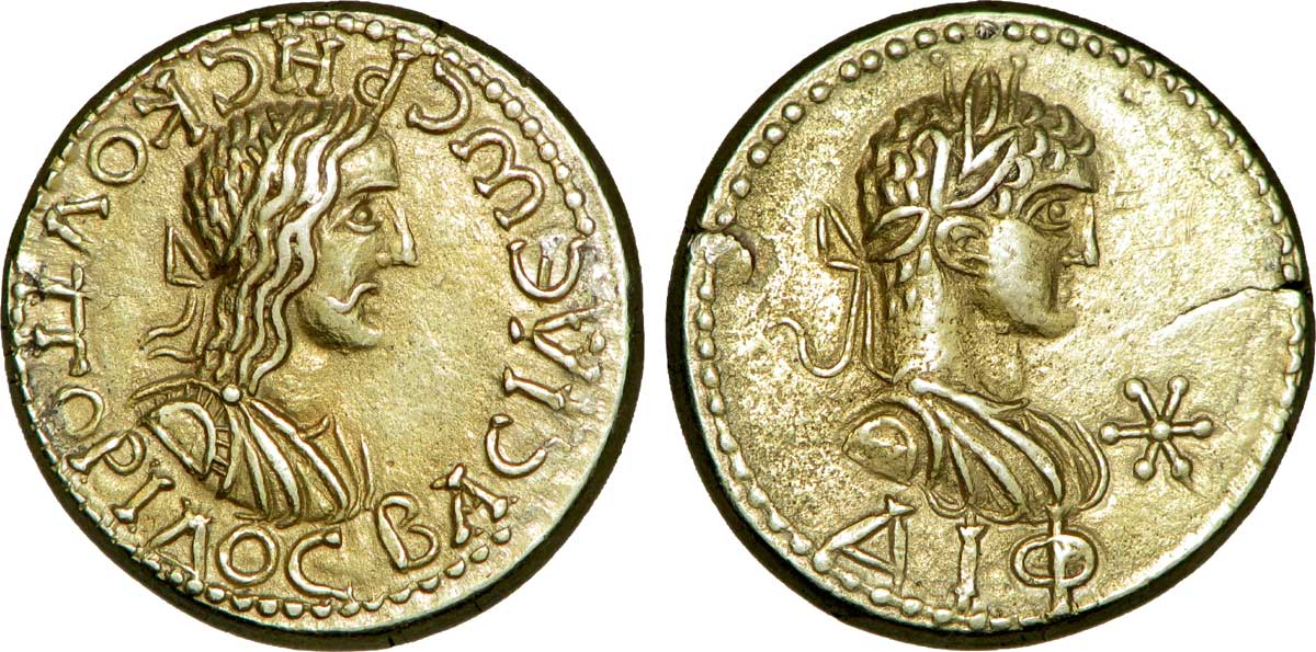 Statère d’électrum à l'effigie de Rhescuporis II Description avers : Buste diadémé et drapé de Rheskuporis II à droite vu de trois quarts en avant .